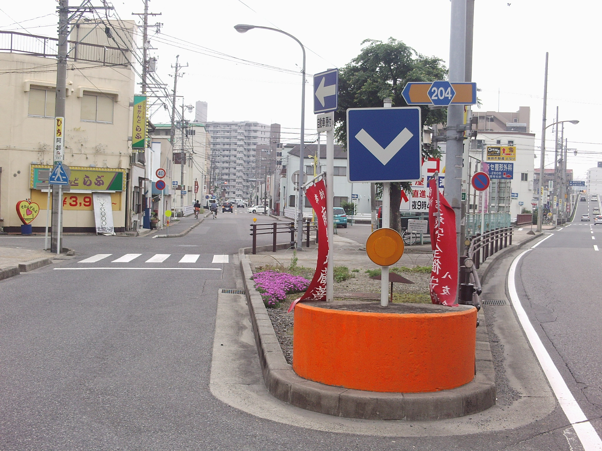 Aichi prefectural road No.204 in Yagotocho 3-chome, Kasugai, Aichi.